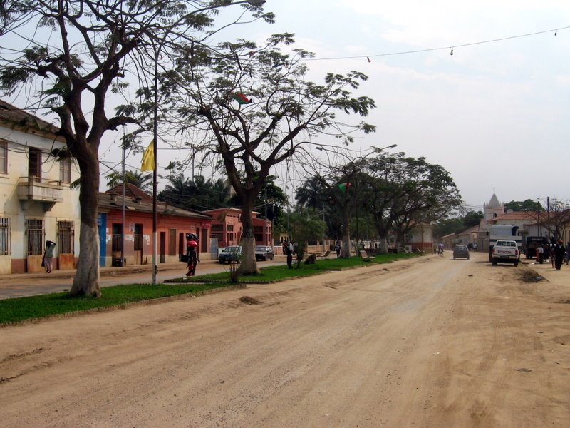 Street in Caxito, Angola